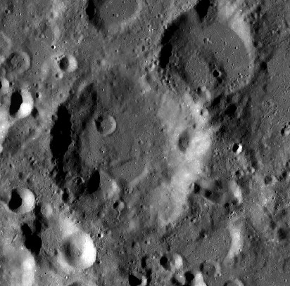 LRO-WAC, Mechnikov C at upper right